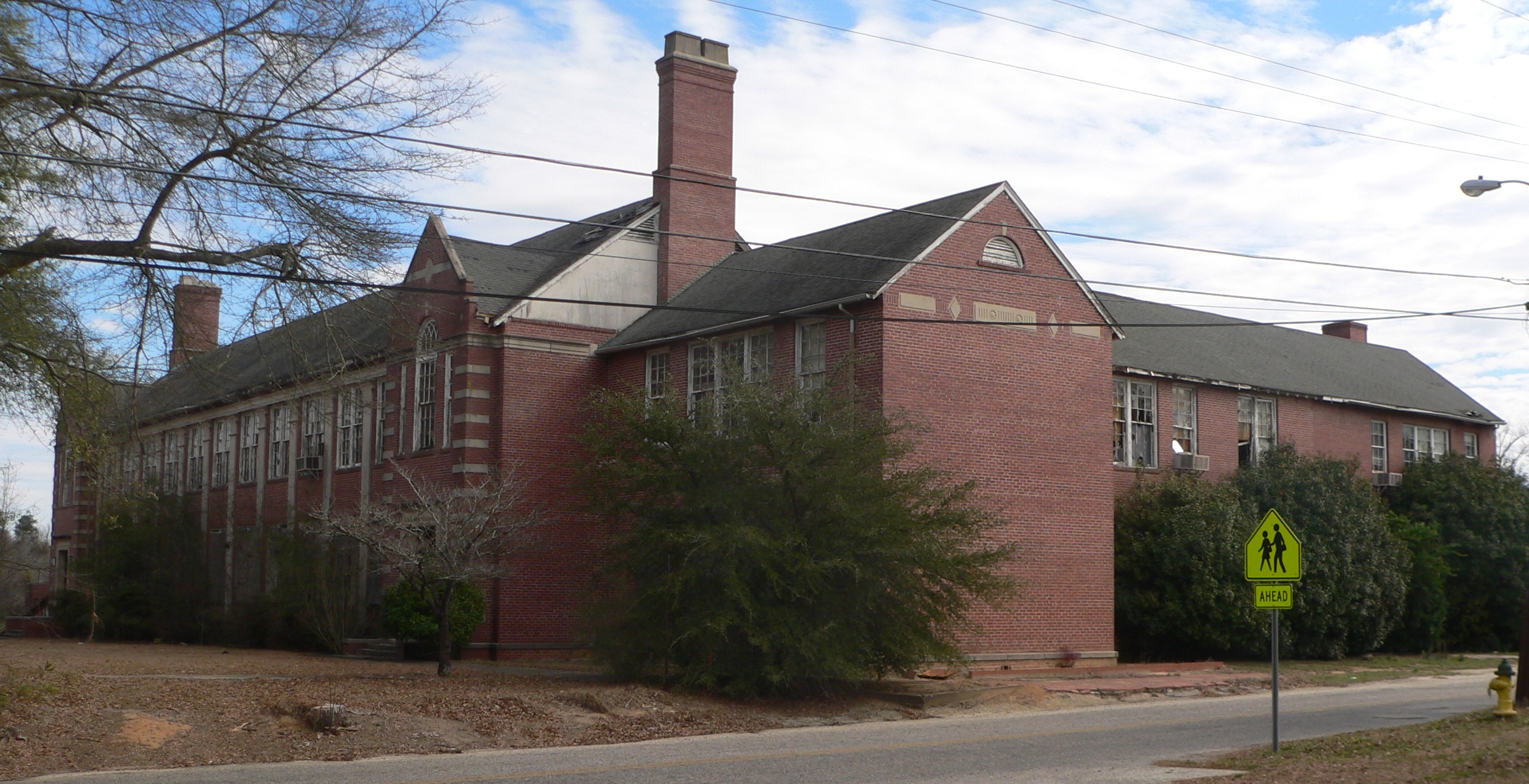 1936 Bishopville High School building, located at 600 N. Main Street in Bishopville, South Carolina.